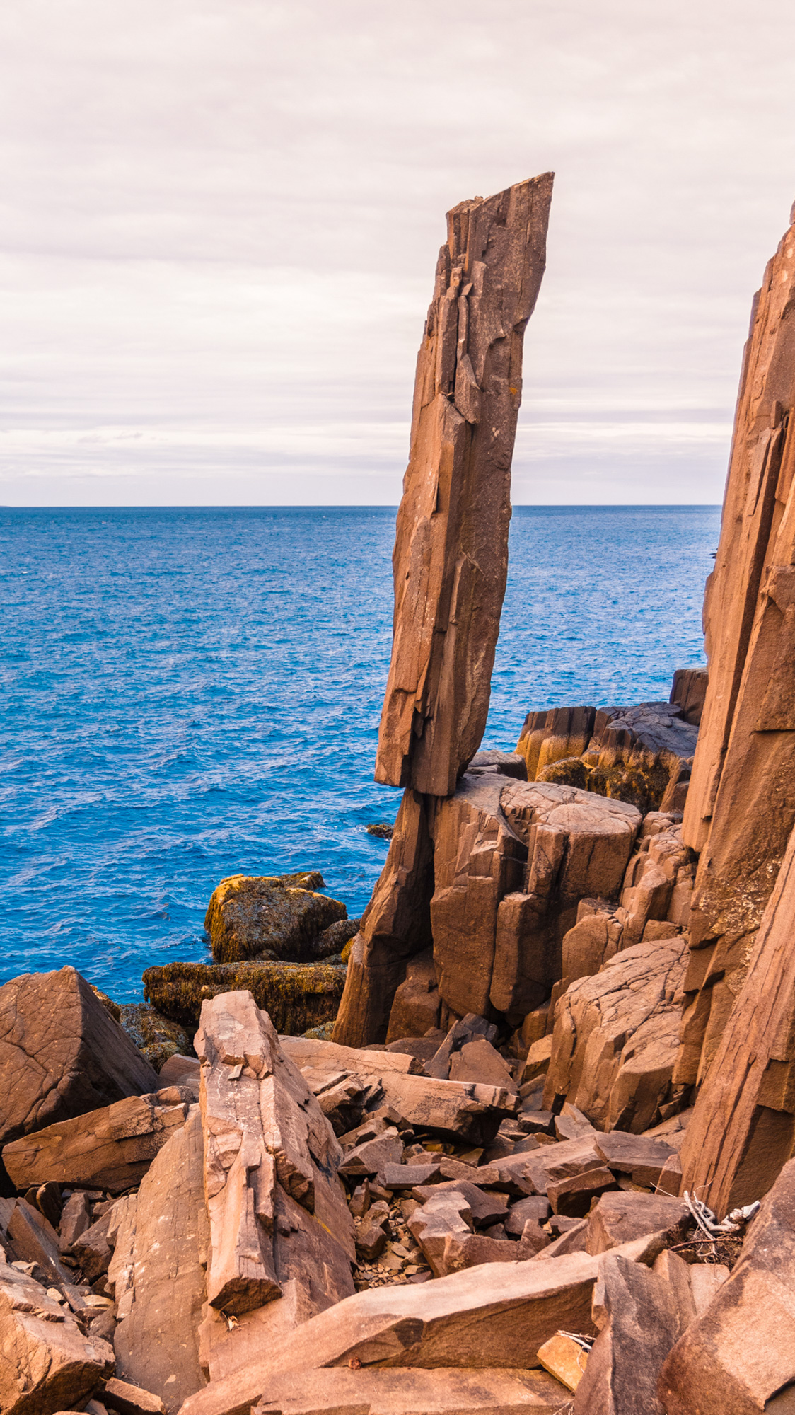 The iconic Balancing Rock overlooking St. Mary's Bay in Nova Scotia. A balancing rock, also called balanced rock or precarious boulder, is a naturally occurring geological formation featuring a large rock or boulder, sometimes of substantial size, resting on other rocks, bedrock, or on glacial till. This basalt rock is found at the end of a well groomed 2.5 km trail and 235 step staircase down to a viewing platform.